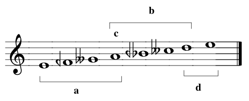 Greek Mixolydian enharmonic genus.png